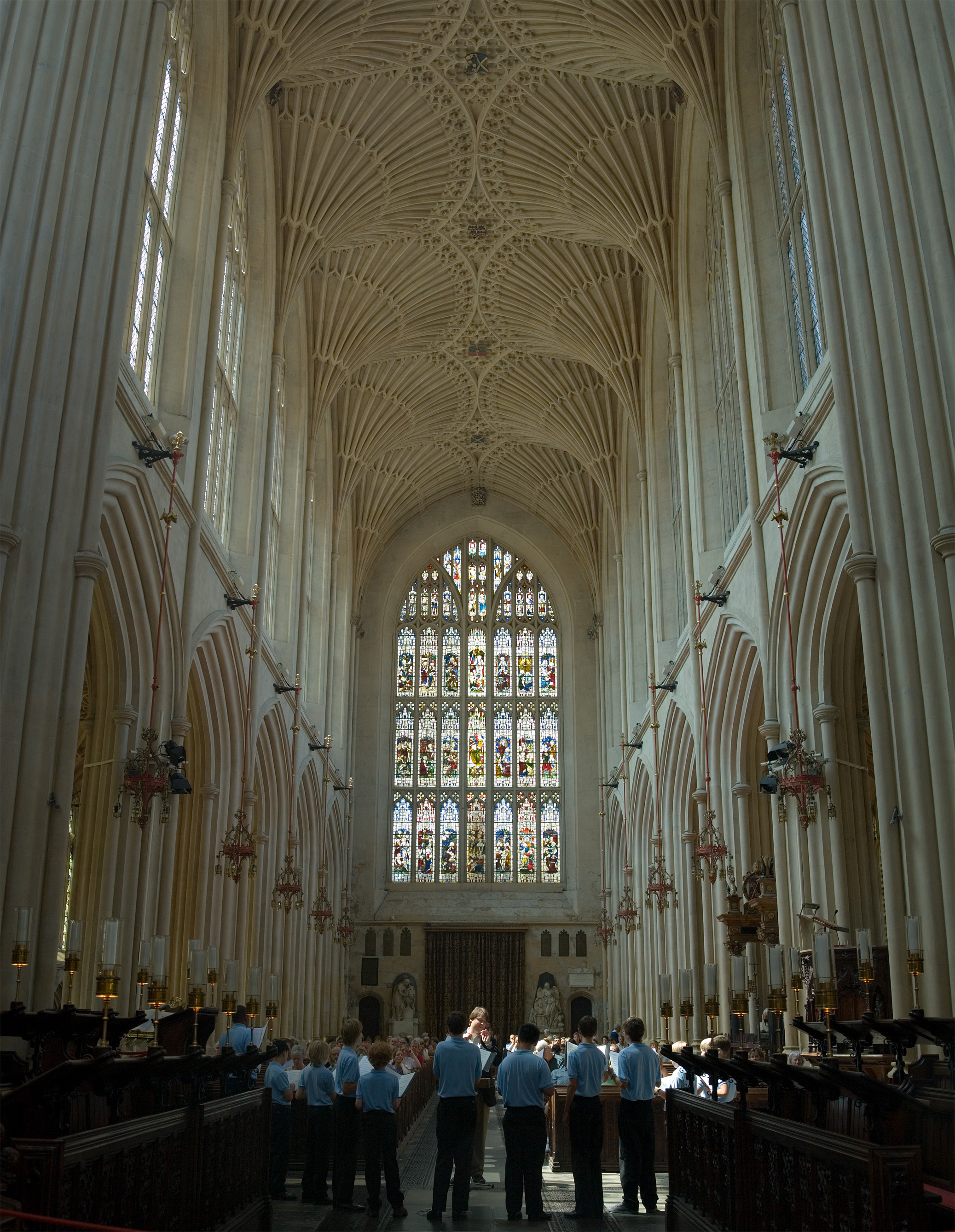 A three segment vertical panorama looking back from the nave towards the entrance of Bath Abbey. A visiting American Boys Choir is practicing in front of visitors. The fan vaulting of the ceiling is also clearly visible.